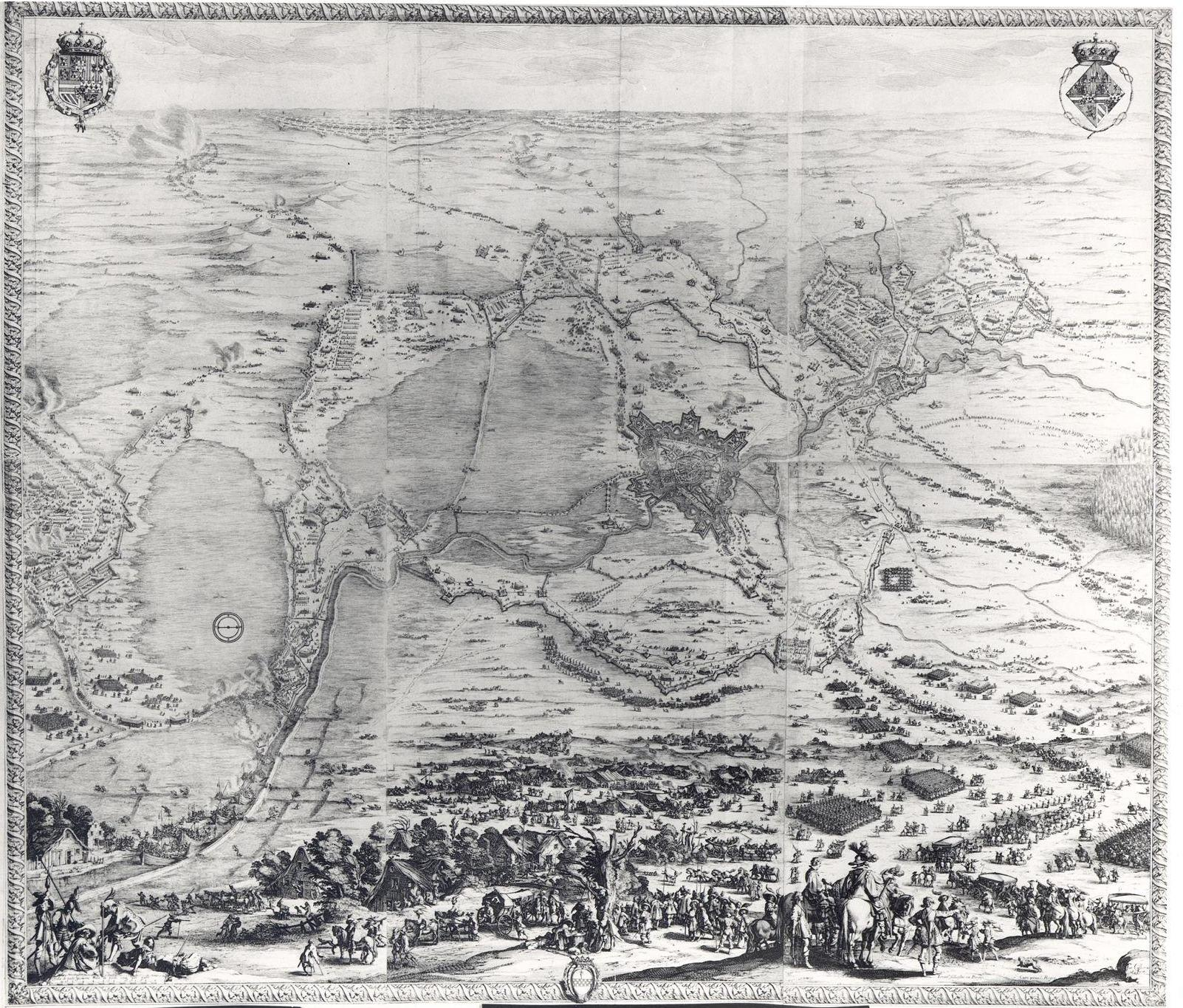 Map of the siege of Breda, the Netherlands 1624-1625 made by Jacques Callot between 1625 and 1626